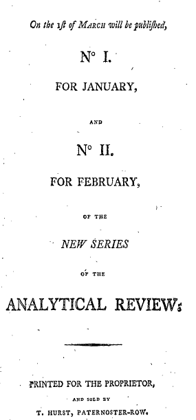 Title page from the advertisement for the Analytical Review (New Series)